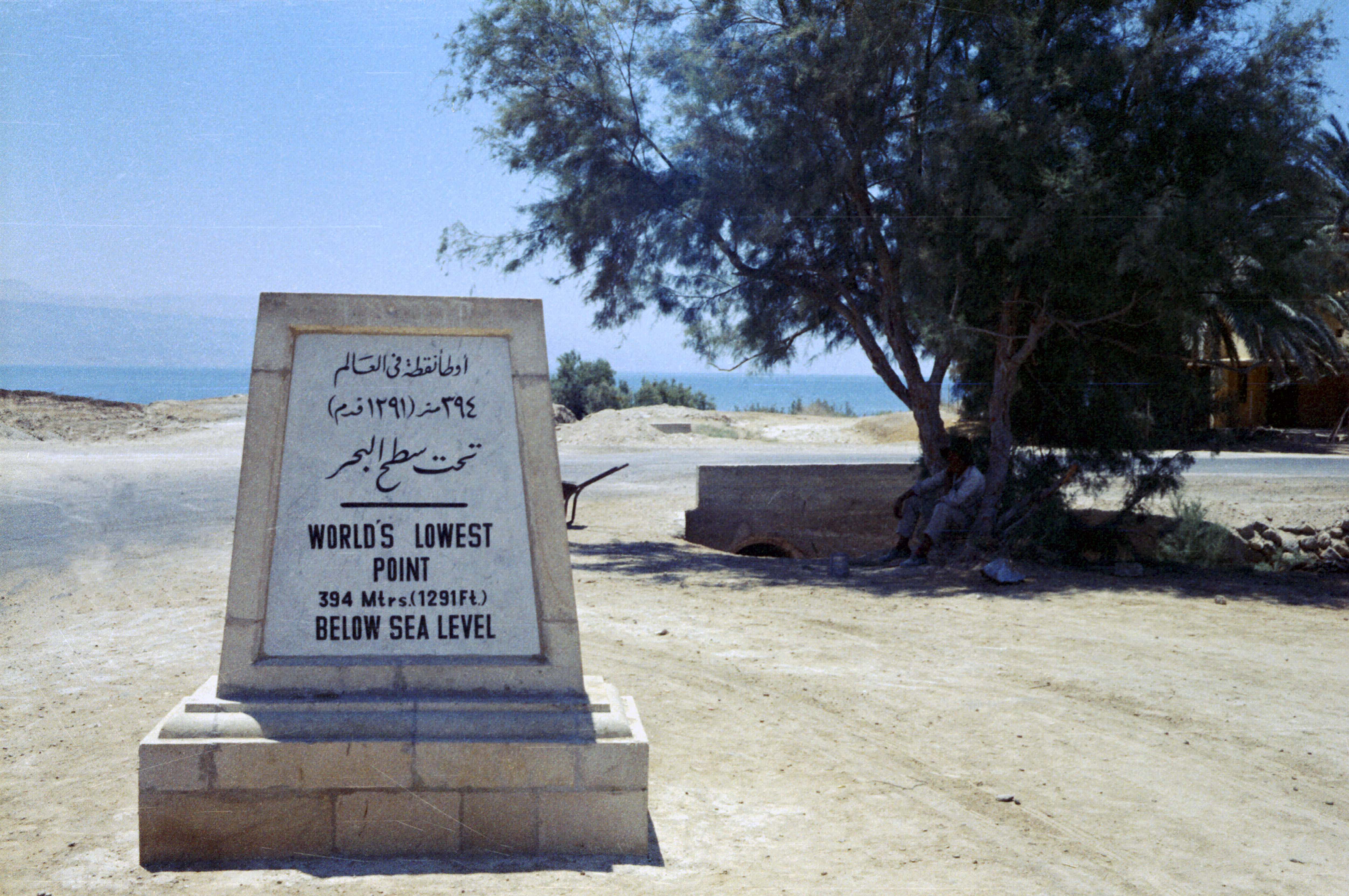 Scanned from film negative Edited (identifyable person removed on the left, colors slightly enhanced)